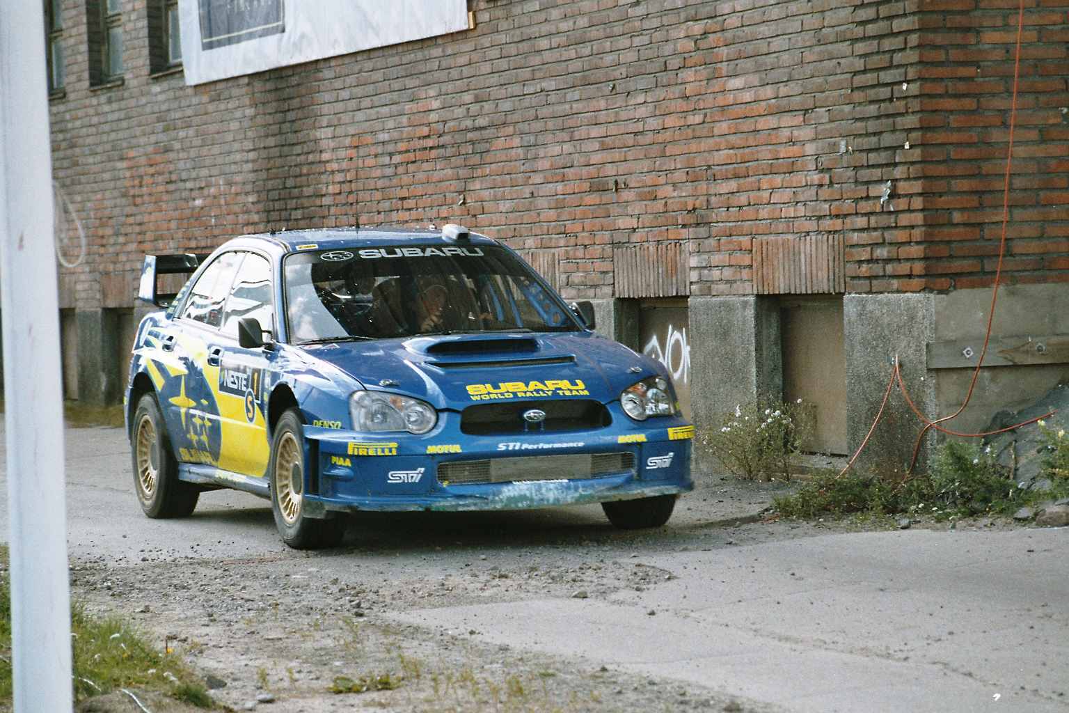 Action from the service park during the 2004 Rally Finland.